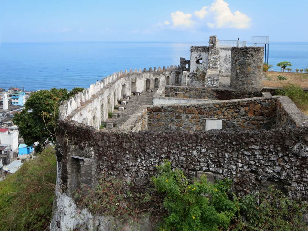 The Citadel of Mutsamudu on Anjouan Island, Comoros, was built by Abdallah Ben Mohamed El Masseli between 1782 and 1790.